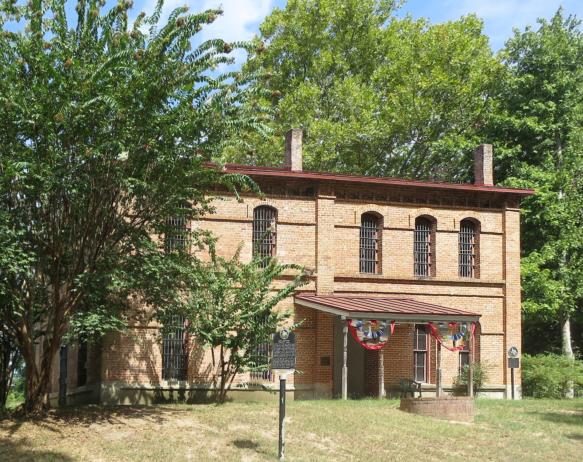 Approved by the Commissioners Court in 1886 and completed the following year, this building served as the San Jacinto County jail until 1980. Interior space included second floor cells and jailer's living quarters on the ground floor. Victorian detailing is reflected in the decorative brickwork and arched windows. The only remaining structure of the original townsite, it now serves as a historic reminder of Coldspring in the 1880s. Jail has rare hangman's trap.